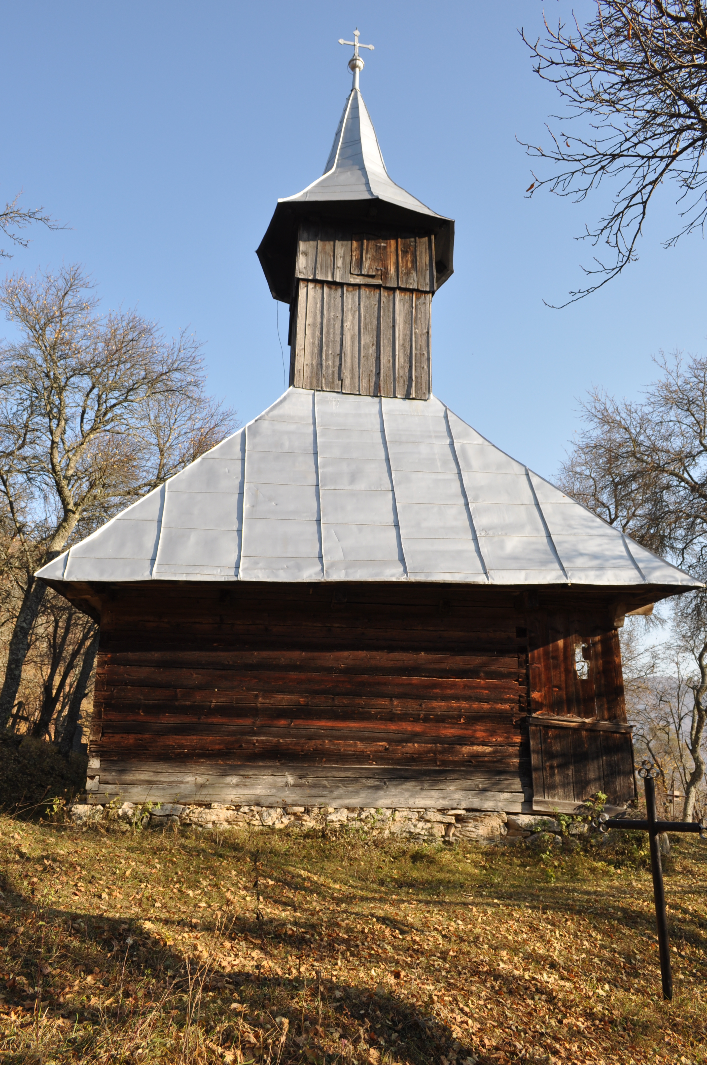 Wooden church in Dealu Geoagiului, Alba county